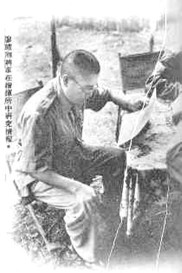 GENERAL LIAO YAO-HSIANG DISCUSSING INTELLIGENCE AT HIS COMMAND POST